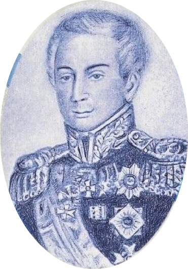 Jean-Baptiste Prevost de Sansac de Traversay